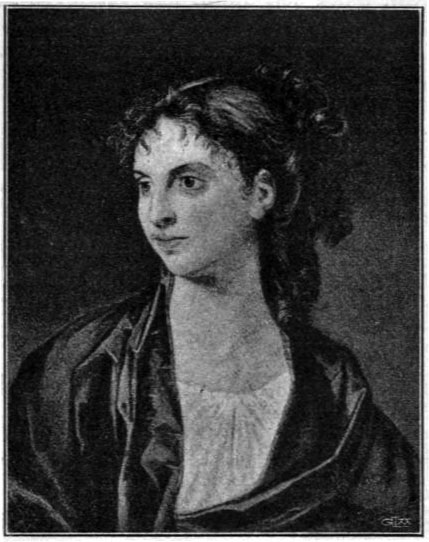 Caroline Walter-Müller, Danish-Swedish opera artist